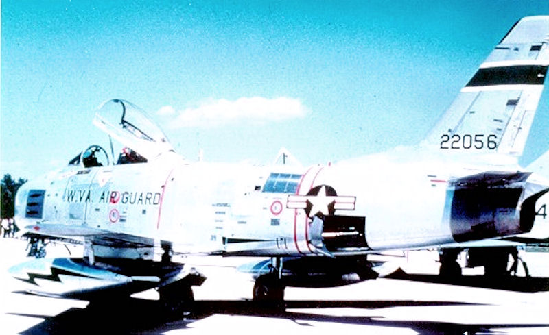 167th Fighter Squadron North American F-86H-1-NA Sabre 52-2056 WV ANG